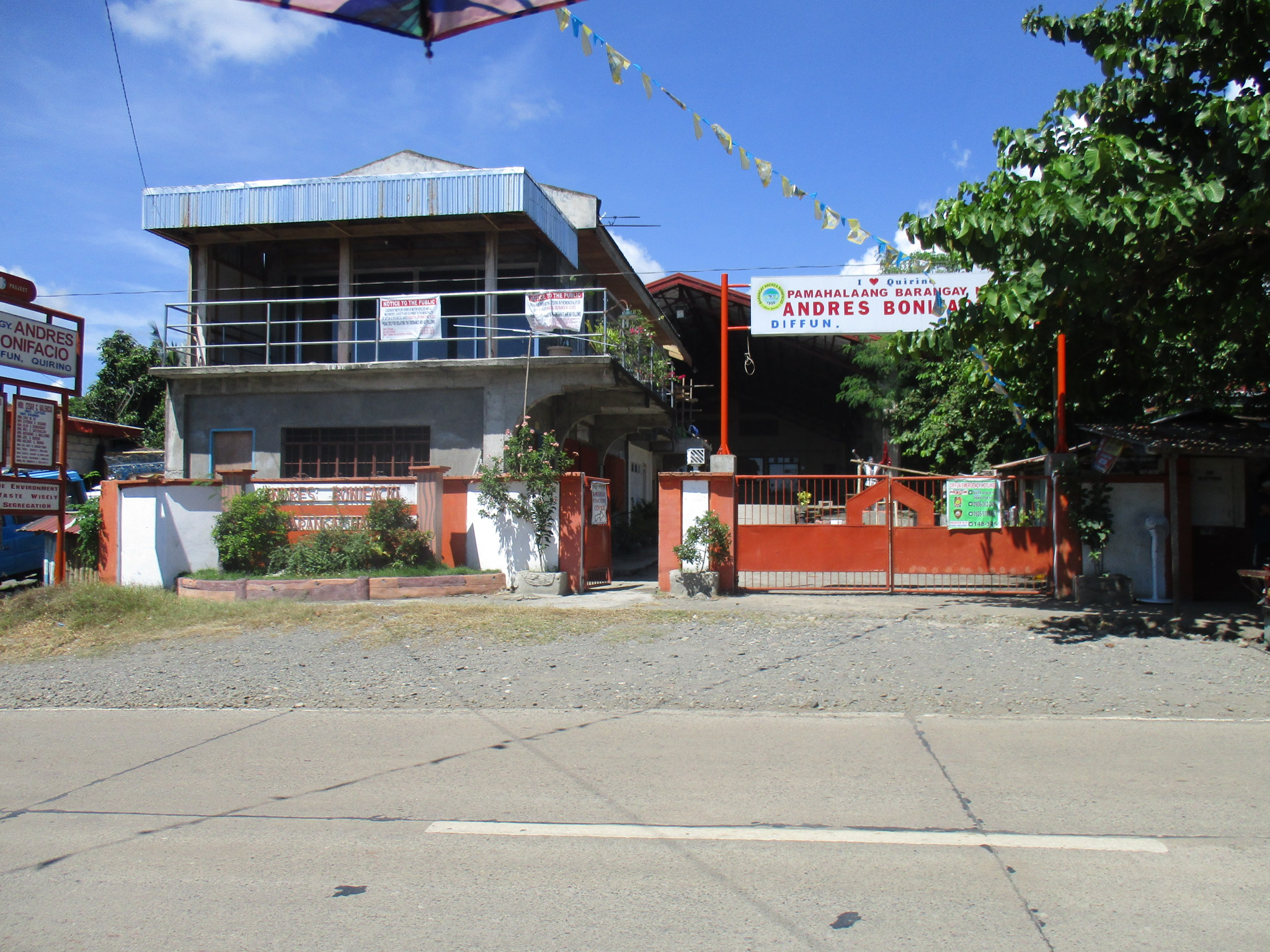 Barangay hall of Andres Bonifacio, Diffun, Quirino.